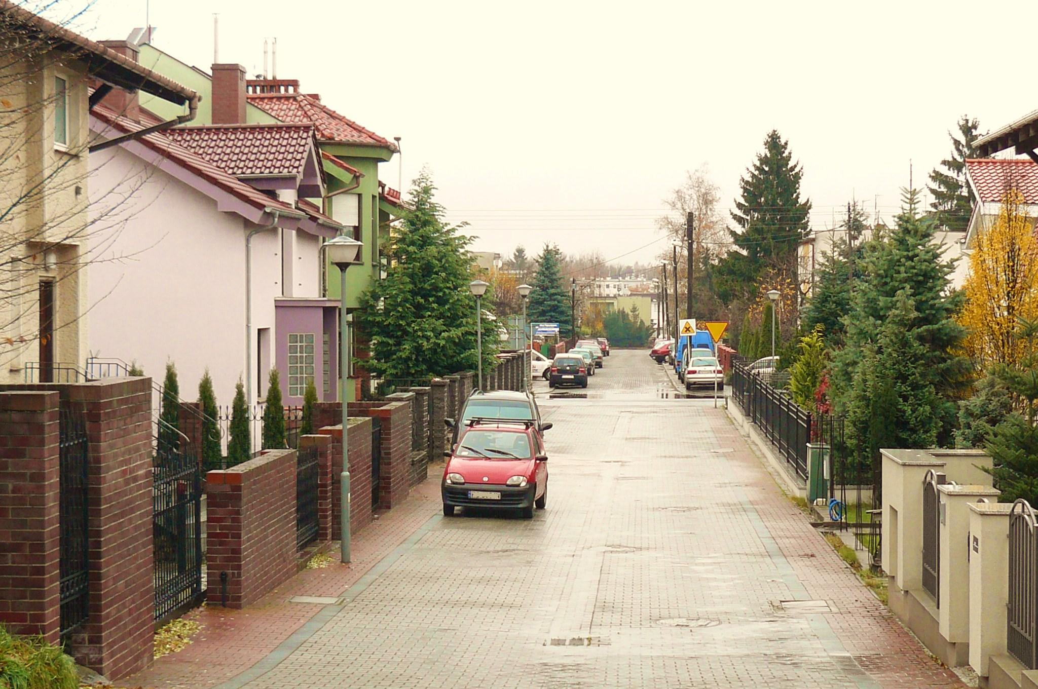 F.Alter Street, Poznan.